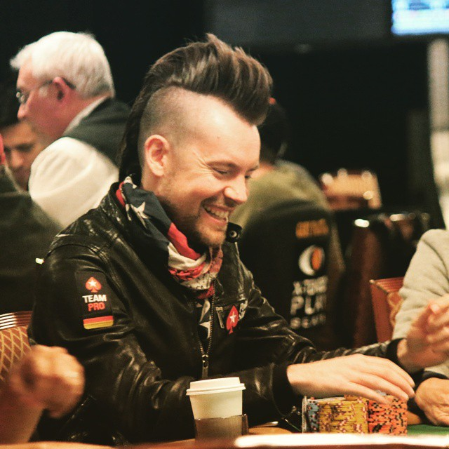 George Danzer at the 2015 World Series of Poker